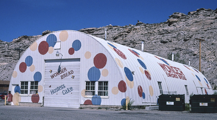 Margolies, John,, photographer. Wonder Bread Store, B-80, Rock Springs, Wyoming 2004. 1 photograph : color transparency ; 35 mm (slide format). Notes: Title, date and keywords based on information provided by the photographer. Margolies categories: Assorted Main Street buildings & storefronts; Main Street. Please use digital image: original slide is kept in cold storage for preservation. Credit line: John Margolies Roadside America photograph archive (1972-2008), Library of Congress, Prints and Photographs Division. Purchase; John Margolies 2007 (DLC/PP-2007:125). Forms part of: John Margolies Roadside America photograph archive (1972-2008). Subjects: Bakeries--2000-2010. United States--Wyoming--Rock Springs. Format: Slides--2000-2010.--Color For more information, see "John Margolies Roadside America Photograph Archive - Rights and Restrictions Information" Repository: Library of Congress, Prints and Photographs Division, Washington, D.C. 20540 USA, Part Of: Margolies, John John Margolies Roadside America photograph archive (DLC) 2010650110 General information about the John Margolies Roadside America photograph archive is available at Higher resolution image is available (Persistent URL): Call Number: LC-MA05- 347